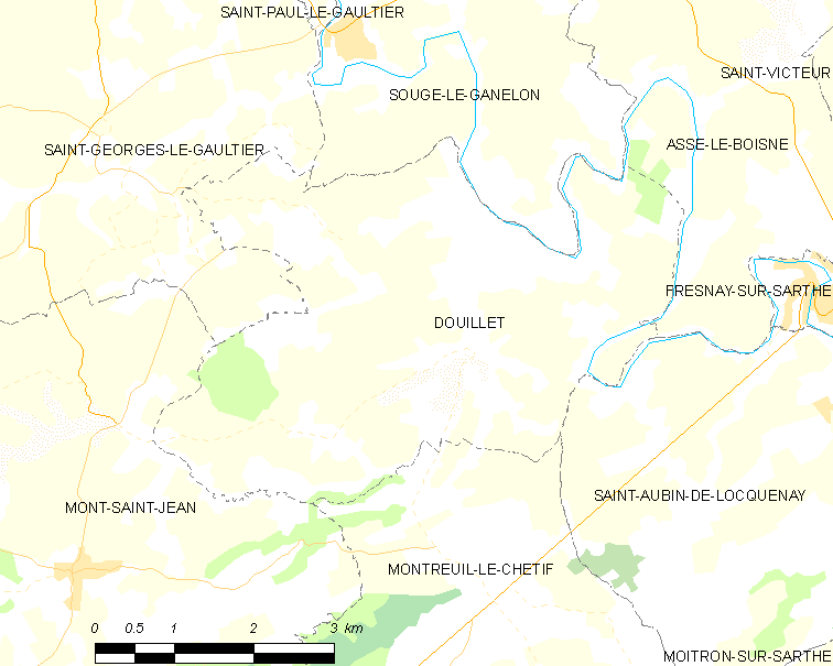 Map of French municipality